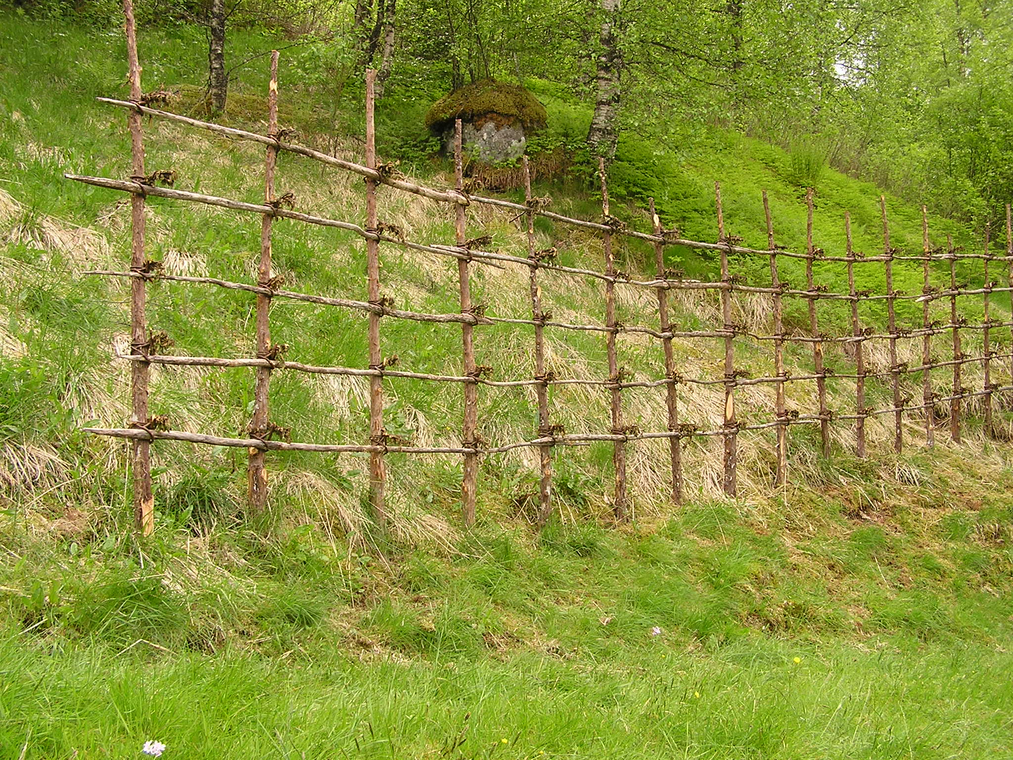 no: Hesjer på Astruptunet These hay racks, or "hesjer" were photographed at the farm of Nikolai Astrup, the painter.